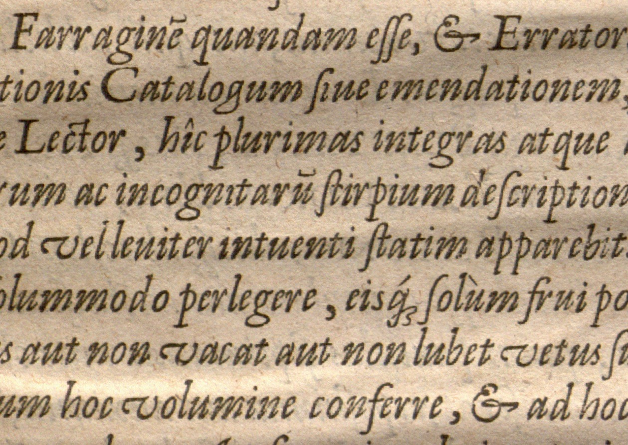 Robert Granjon's famous Ascendonica italic, shown in a 1611 book. Attribution: Dr. Frank E. Blokland; see discussion here.